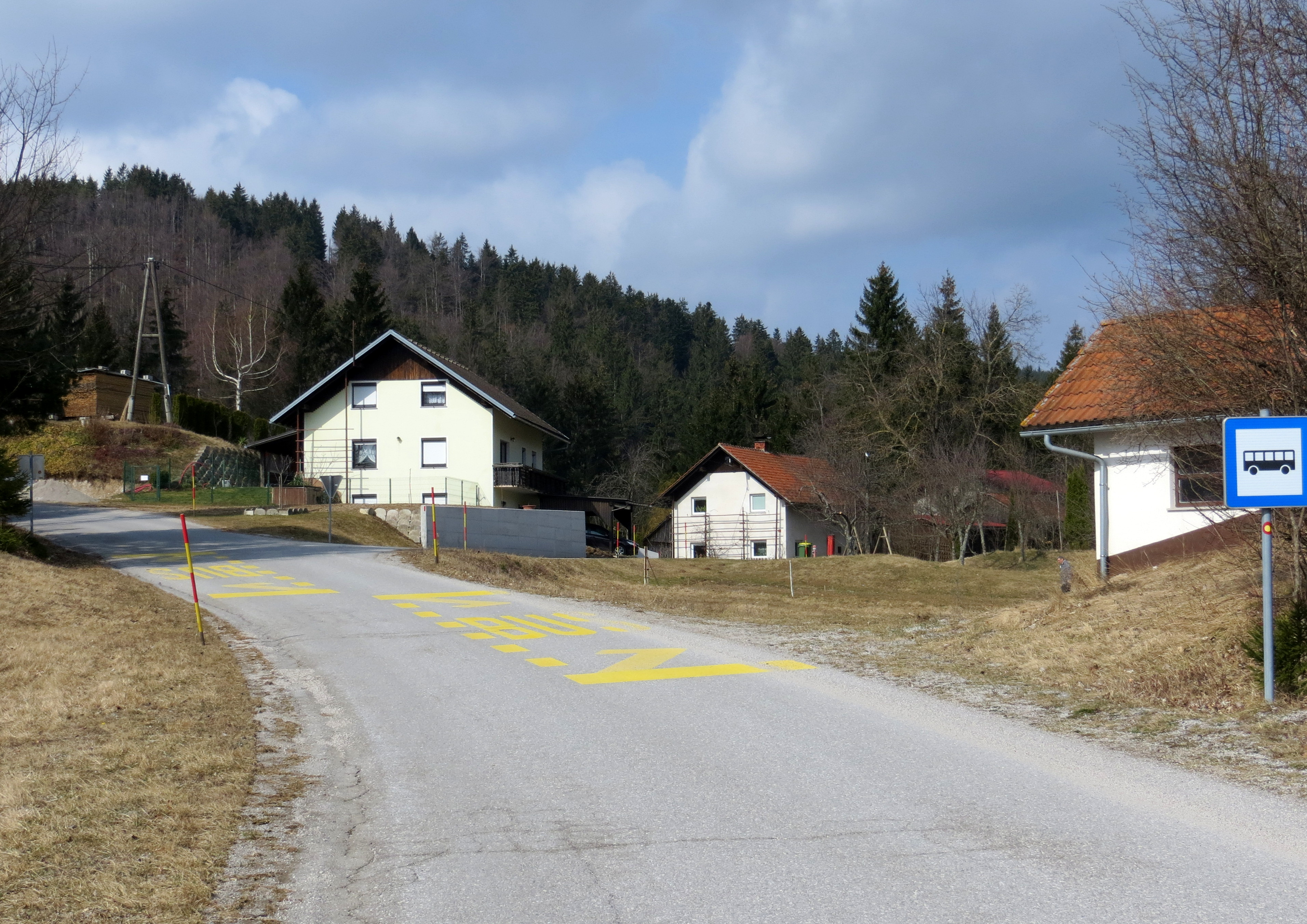 The hamlet of Katern in Dolenje Otave, Municipality of Cerknica, Slovenia